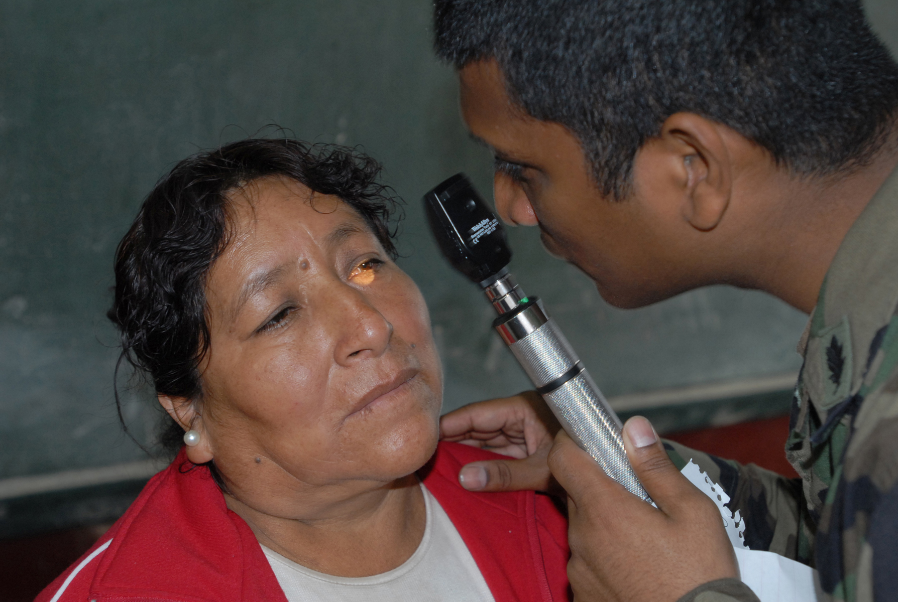 BARRANCA, Peru (June 16, 2008) Lt. Manoj Abraham, embarked aboard the amphibious assault ship USS Boxer (LHD 4), examines a patient's eyes at the Guillermo Enrique Billinghurst School in Barranca. Boxer is deployed supporting the Pacific phase of CP, an equal-partnership mission between the United States, Guatemala, El Salvador and Peru. U.S. Navy photo by Mass Communication Specialist 3rd Class Matthew Jackson (Released)